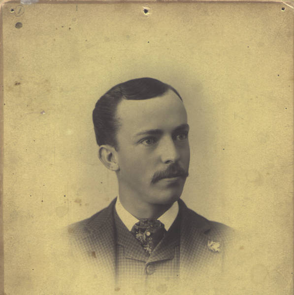 Miguel Antonio Otero II, Governor of New Mexico Territory from 1897-1906